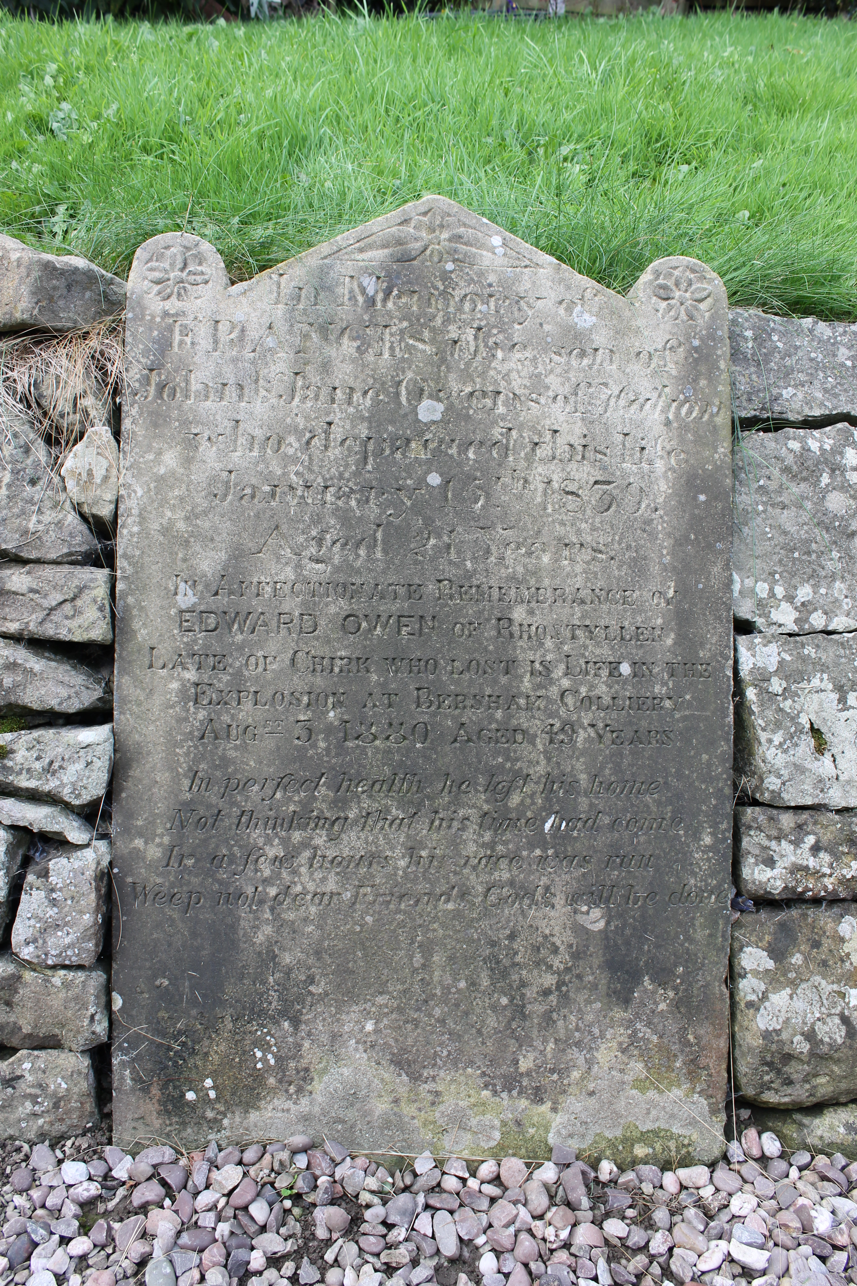 Gravestone of miner who died in the Bersham Colliery explosion August 1880. St Mary's Parish Church in Wrexham County Borough, North Wales LL14 5HX. Grade I listed building.